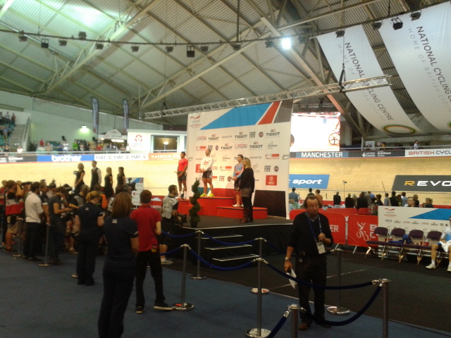 Podium of the men's sprint at Round 1 of the the 2012-13 Track Cycling World Cup in Manchester